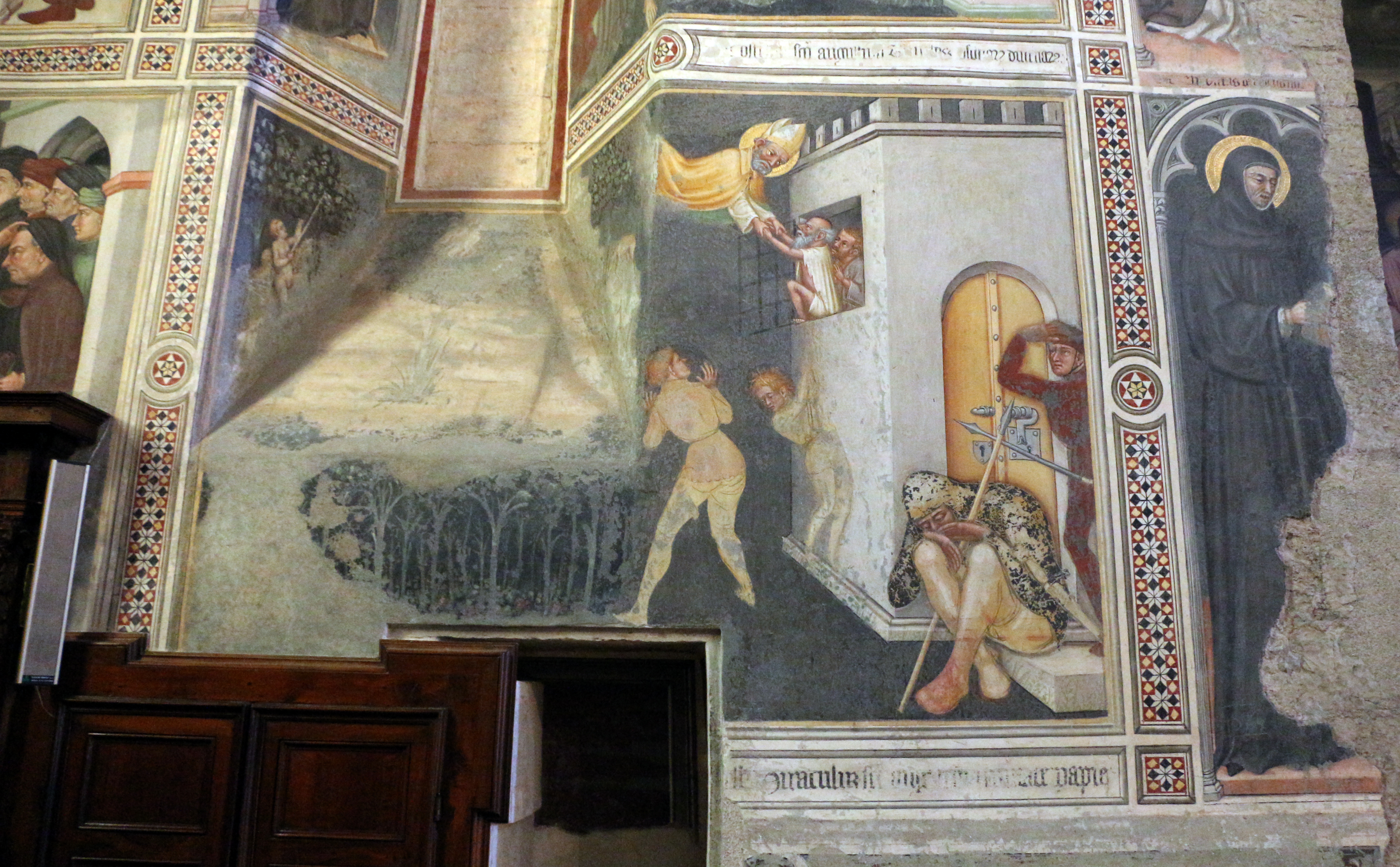 Stories of Saint Augustine by Ottaviano Nelli